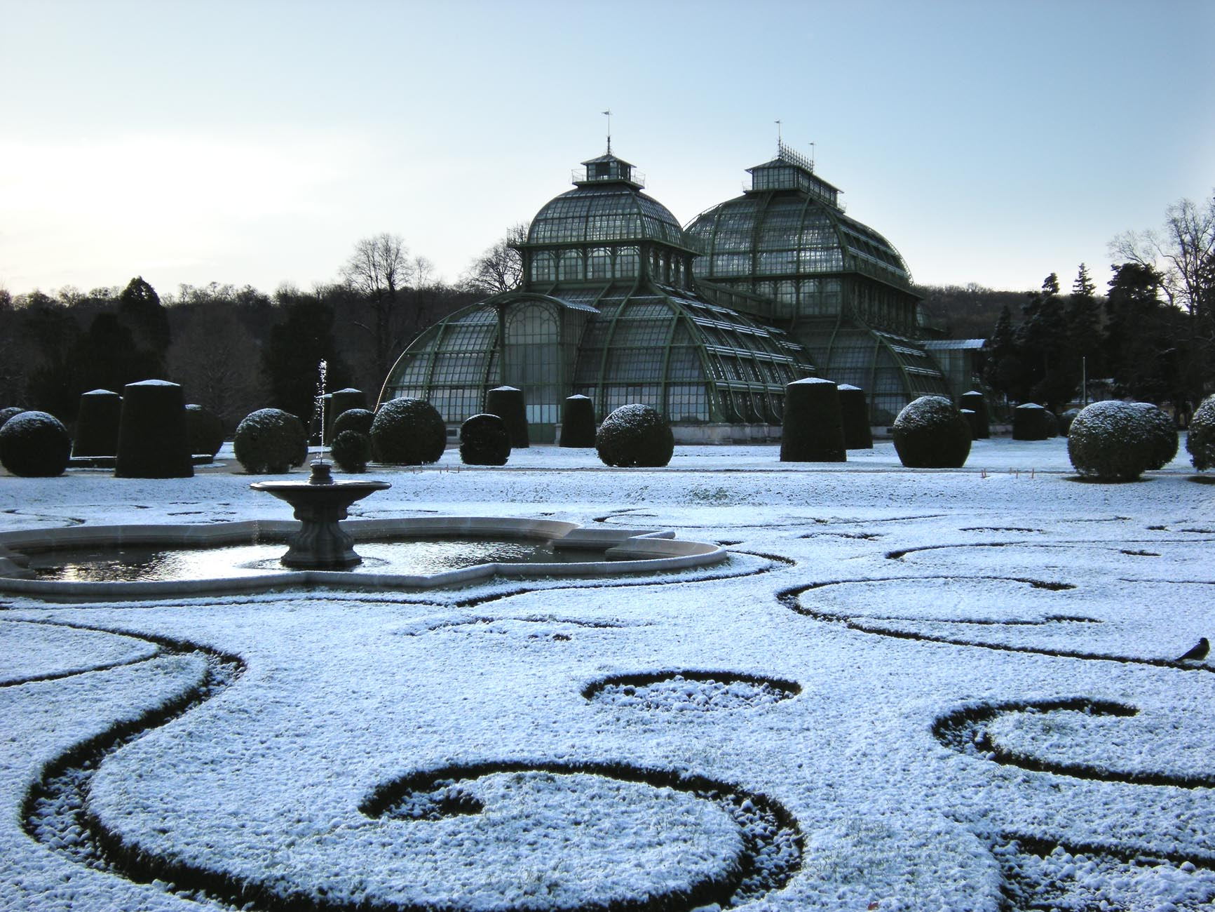 Palm house at Schönbrunn, Vienna, seen from "Palmhouse parterre" (app. N).